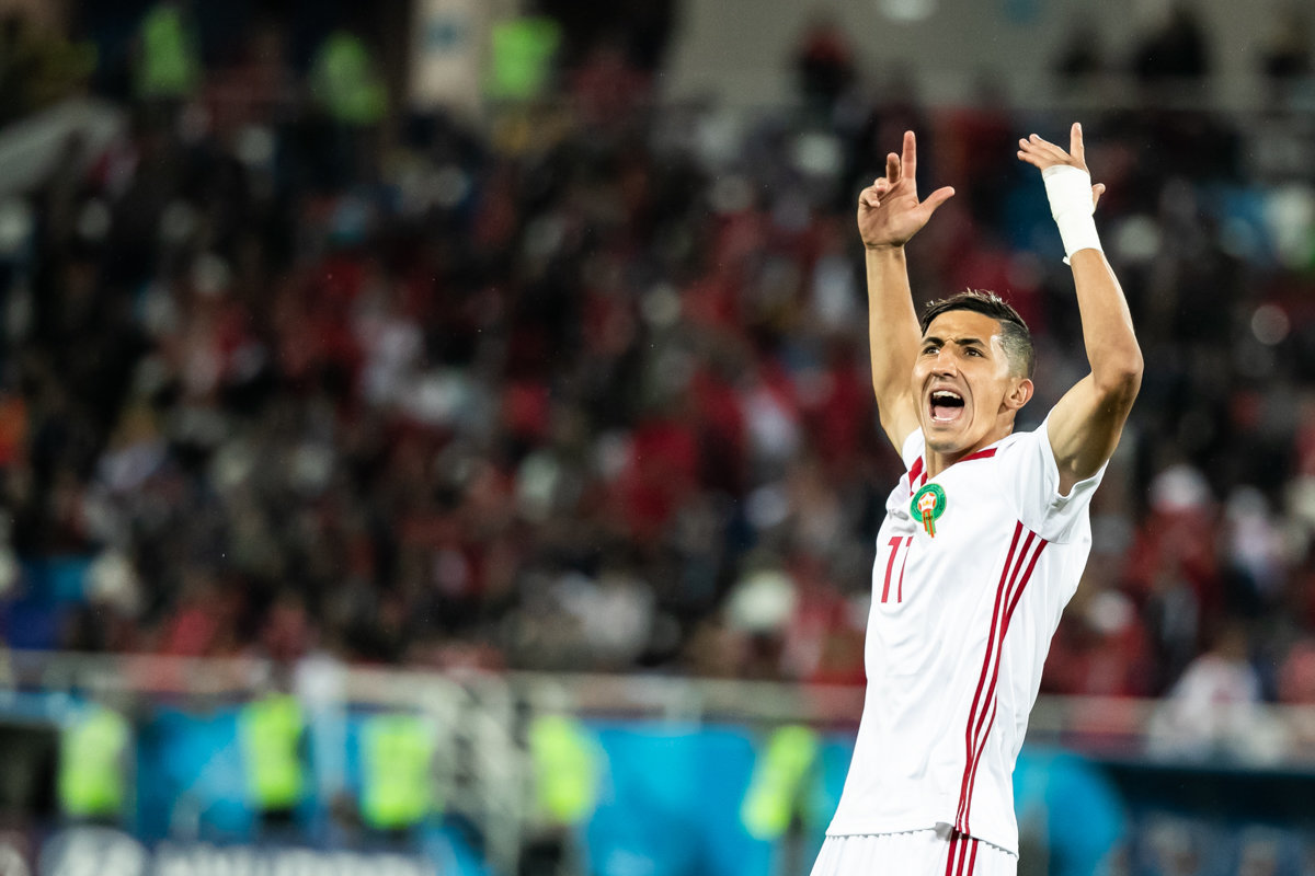 Spain-Morocco match, Group B, 2018 FIFA World Cup